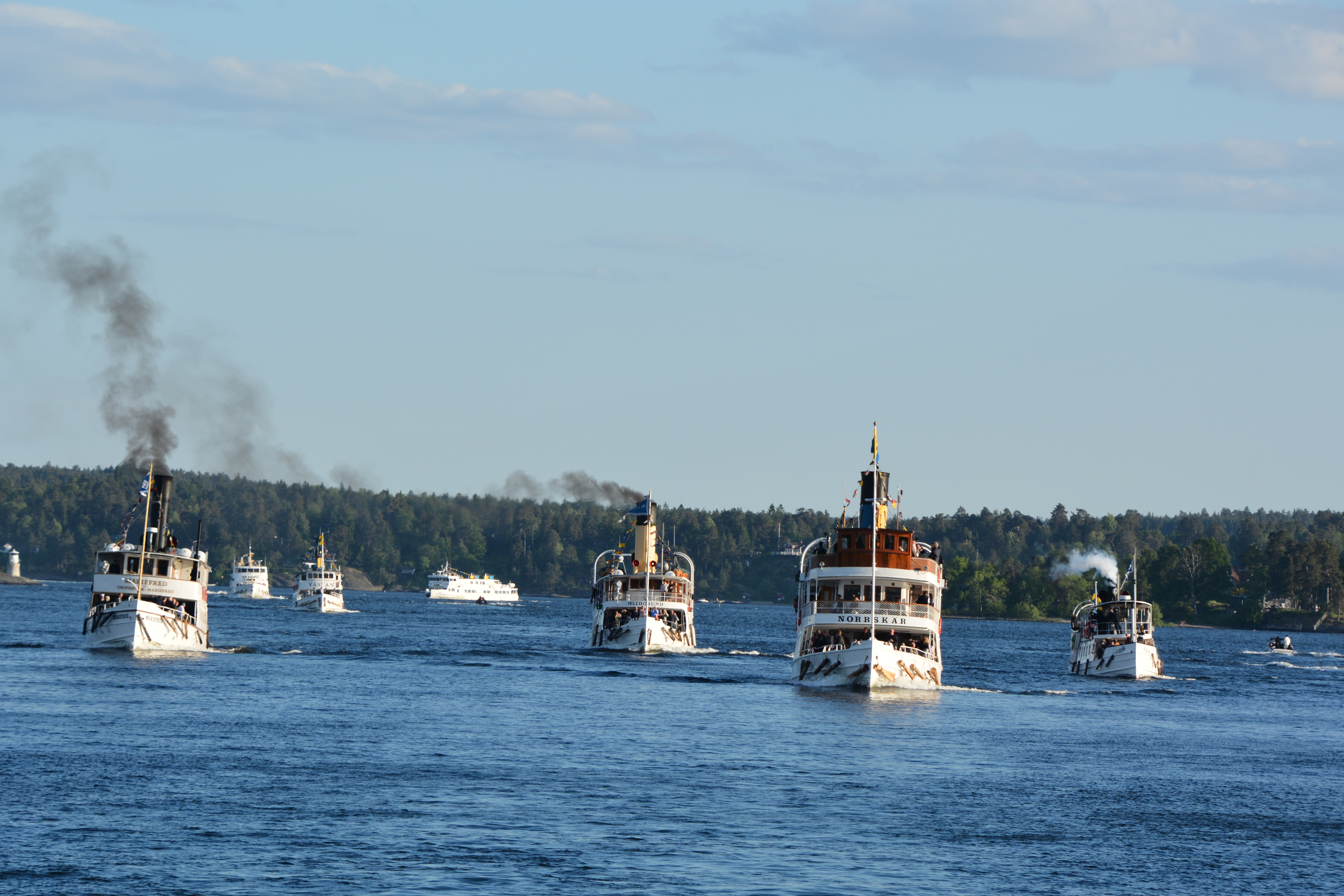 Seven Stockholm archipelago passenger ships just south of Vaxholm, Sweden